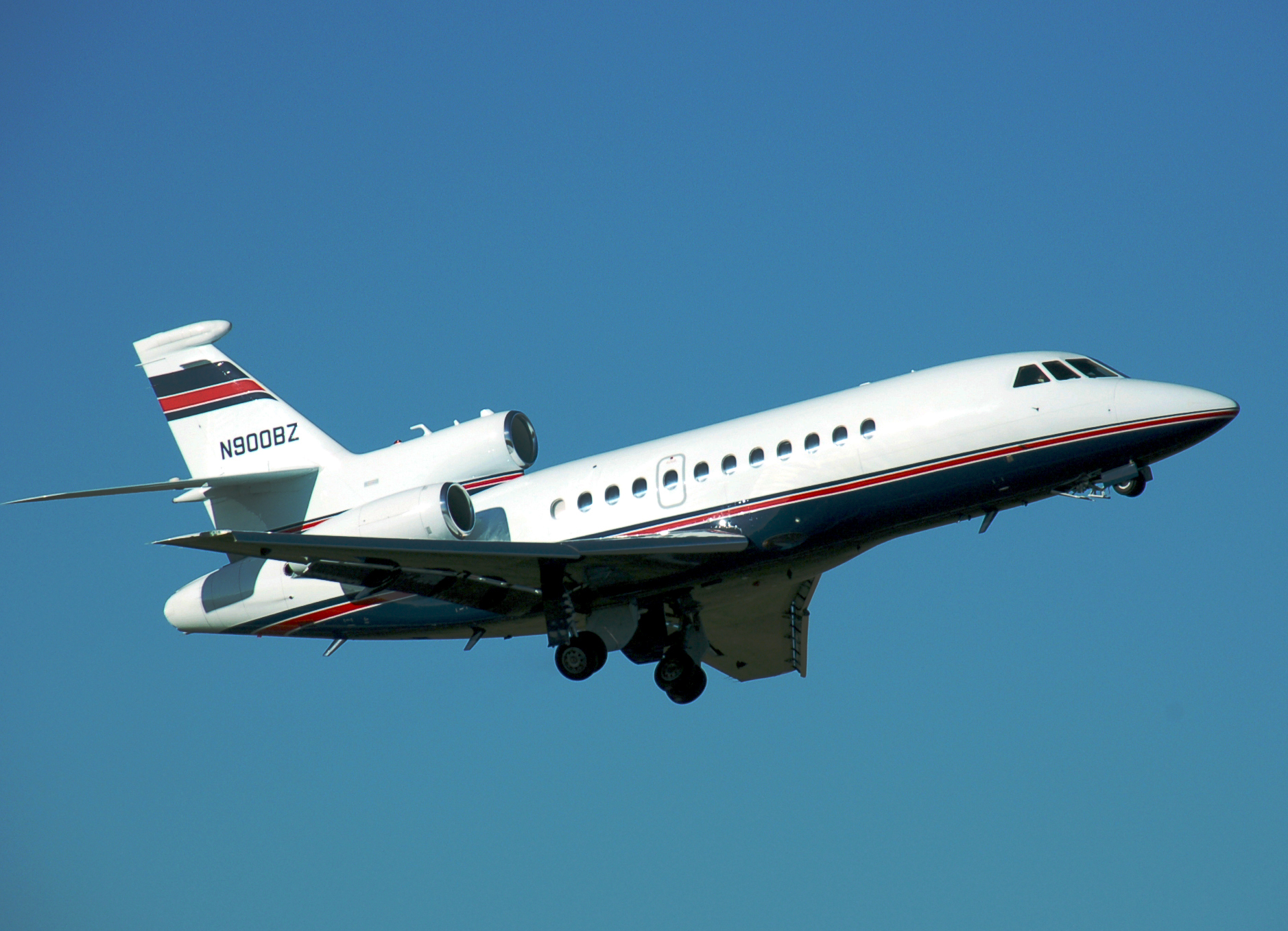 Dassault Falcon 900EX (US registration N900BZ) takes off from London Luton Airport, England.